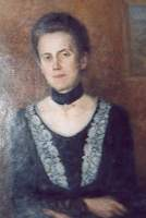 Mary Augusta von Nathusius, born Braendlin, wife of General Wilhelm von Nathusius